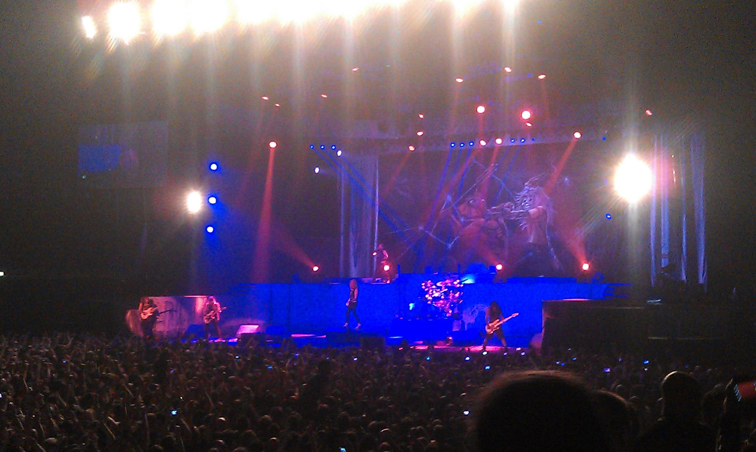 Iron Maiden